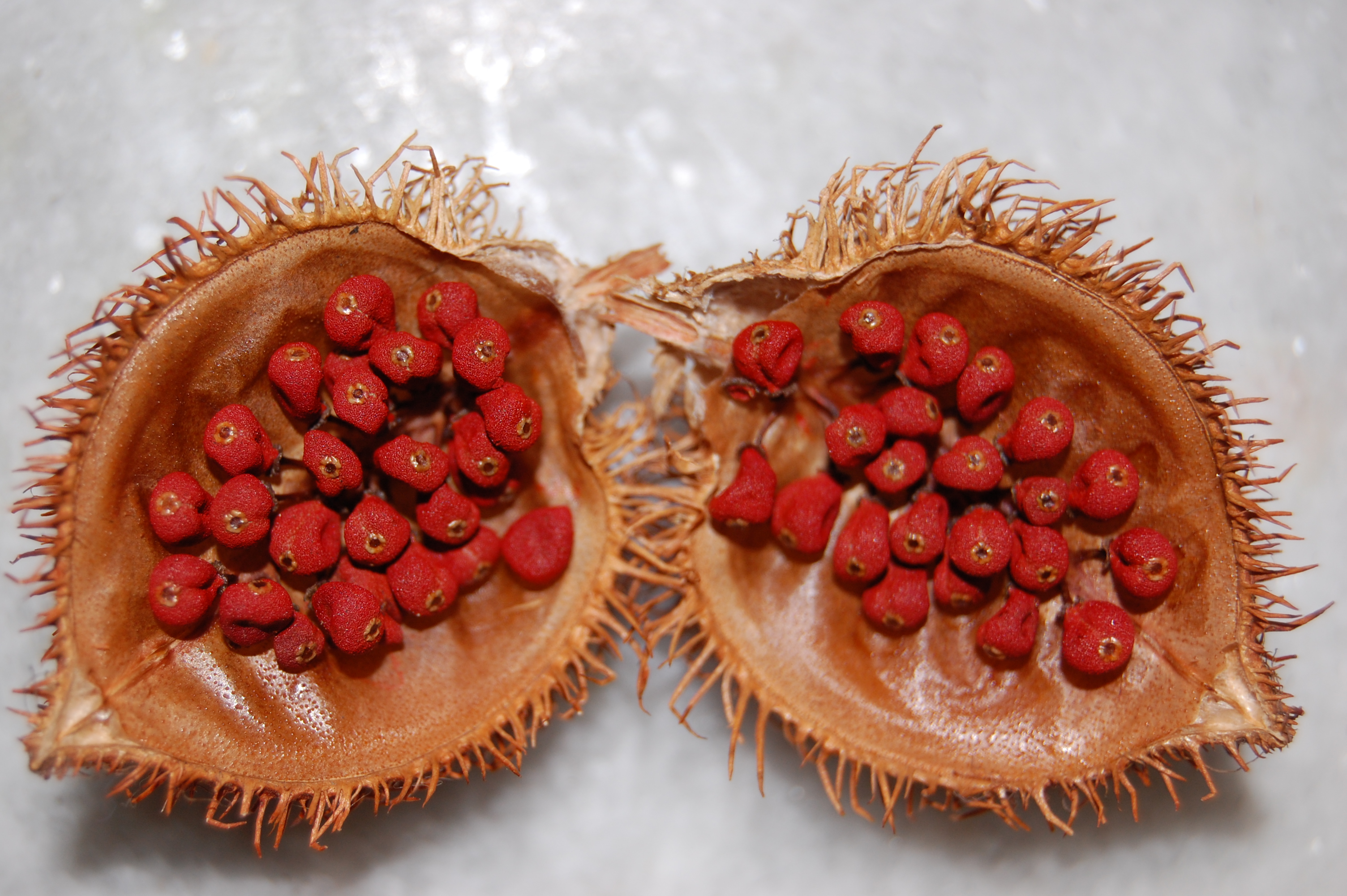 Native indians of Brazil use urucum seeds to make red pigment. Scientific name: Bixa orellana.Urucum (bixa orellana) seeds